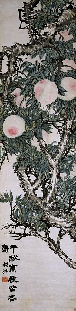 One of four paintings in the series "Flowering Plants", 240 x 60 cm. Zhao Zhiqian (1829-1884). Dated 1870.